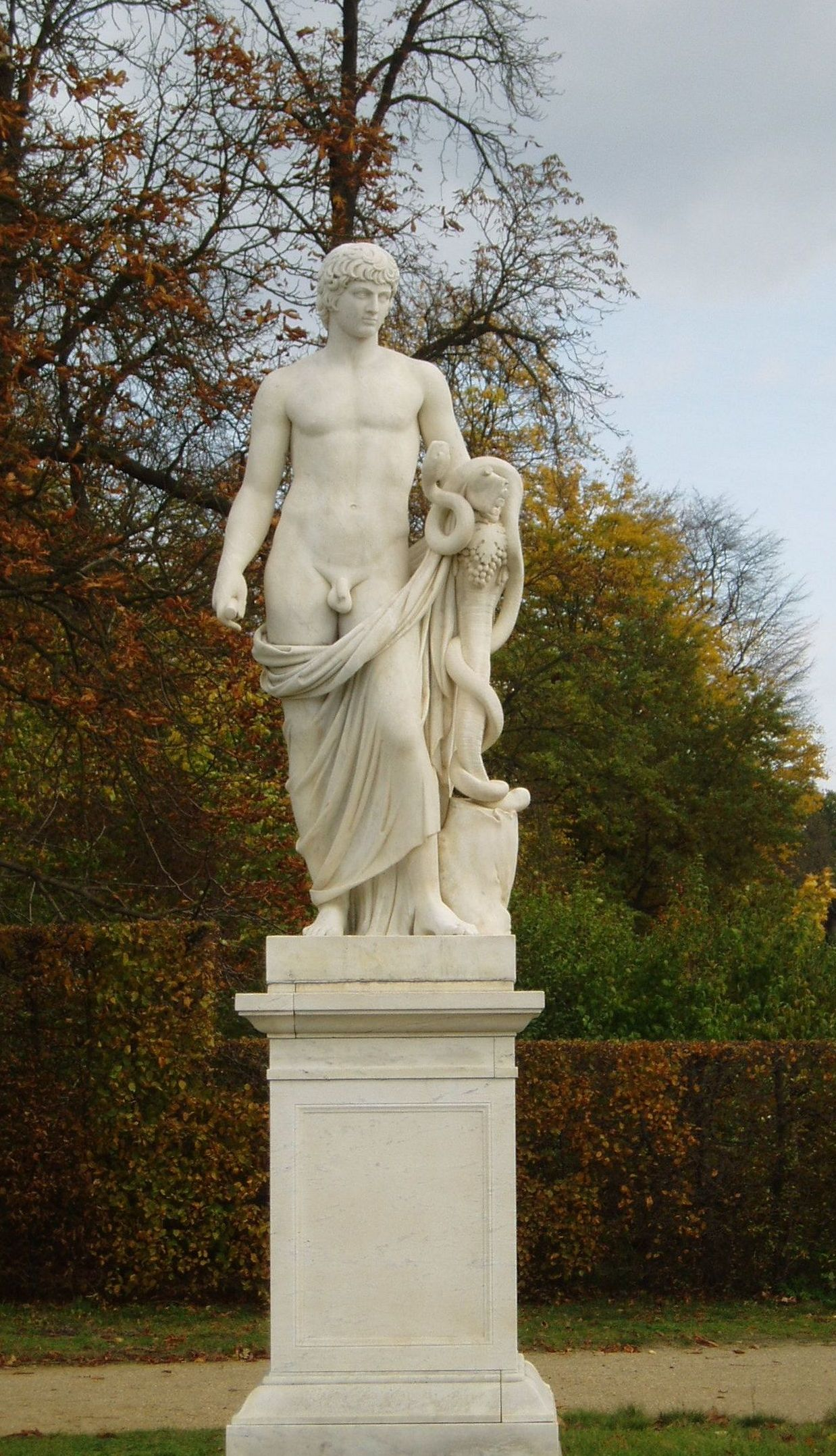 Antinoos with snake. Sculpture by August Julius Streichenberg, 1852. Half rondel Neues Palais, Potsdam, Germany